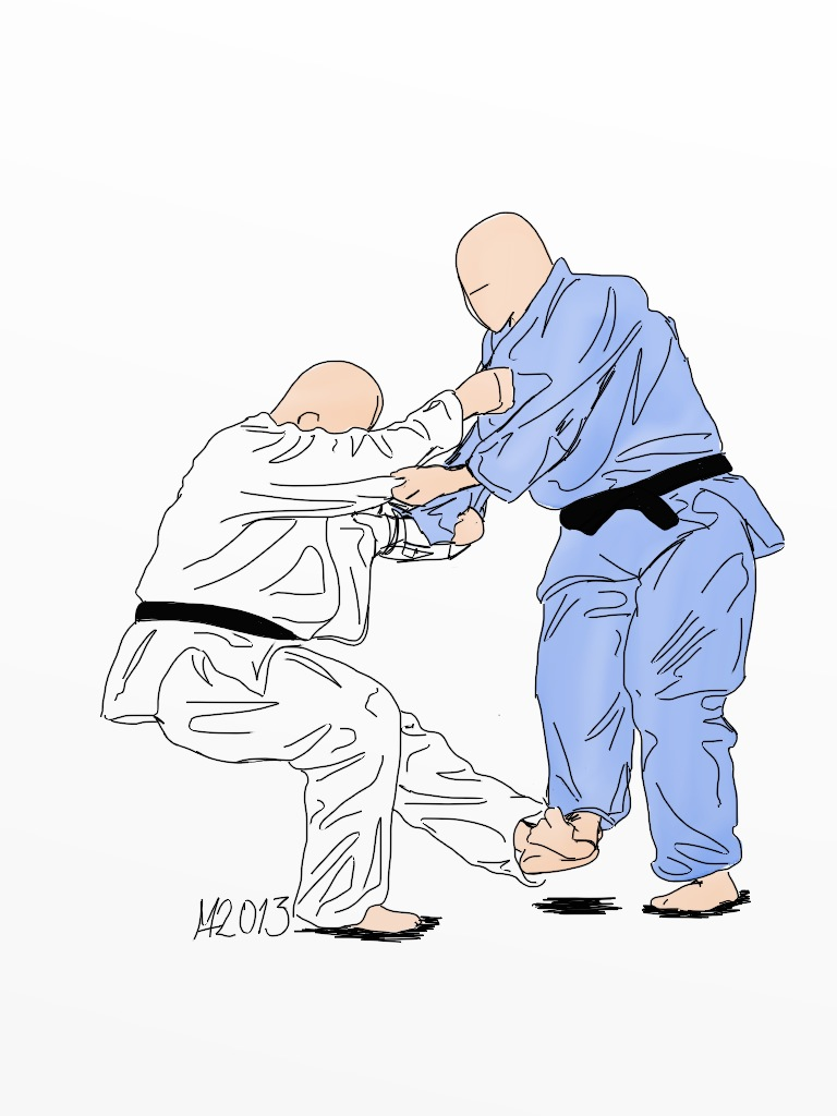 Illustration of the judo sacrifice throw yoko-gake, or side-hook.